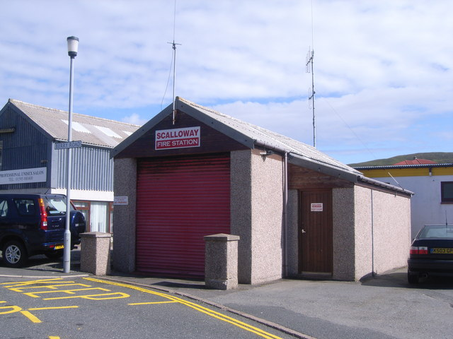 Scalloway Fire Station